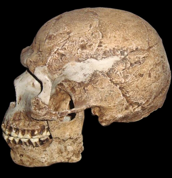 Skhul V